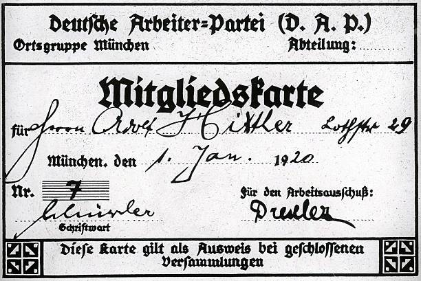 Forged copy of Adolf Hitler's membership card in the German Worker Party (DAP), which would later become the NSDAP. His membership number was actually 555. In a letter from Anton Drexler that was drafted in 1940 but never sent, he said: No one knows better than you yourself, my Führer, that you were never the seventh member of the party, but at best the seventh member of the committee, which I asked you to join as recruitment director. And a few years ago I had to complain to a party office that your first proper membership card of the DAP, bearing the signatures of Schüssler and myself, was falsified, with the number 555 being erased and number 7 entered. [Note: membership was counted upwards from 500 (the first 500 members did not in fact exist), so Hitler's party number was 555, when in fact he was the 55th member.]